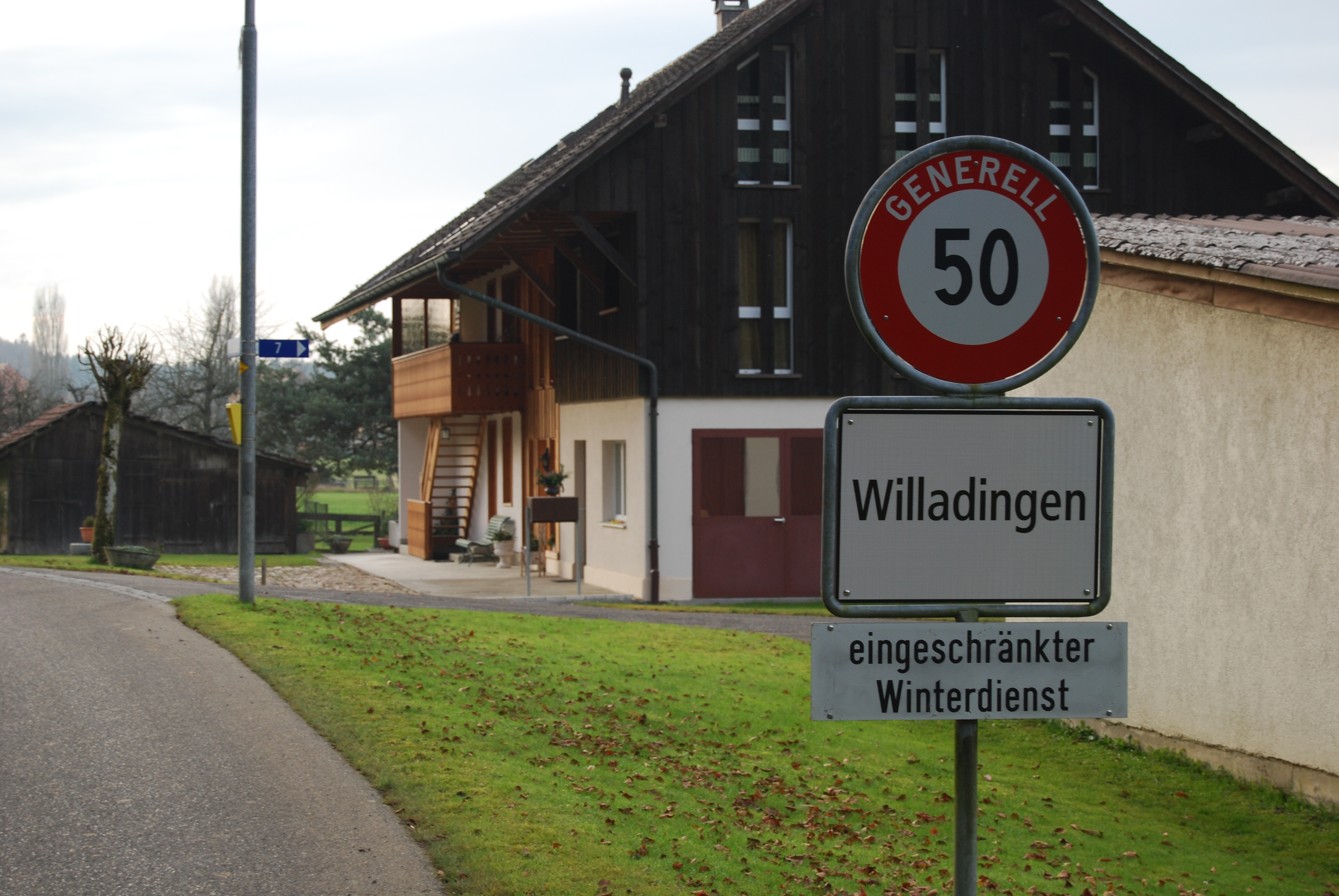 Willadingen, canton of Bern, SwitzerlandEsperanto: Willadingen, Kantono Berno, Svislando